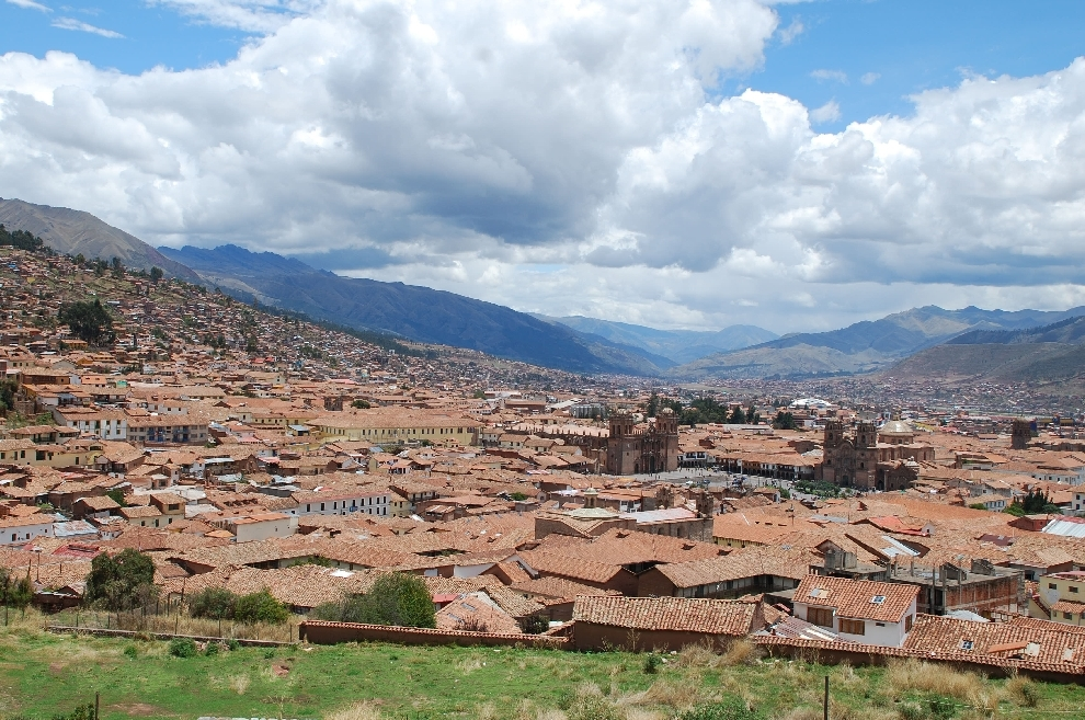 View over Cusco City, Peru